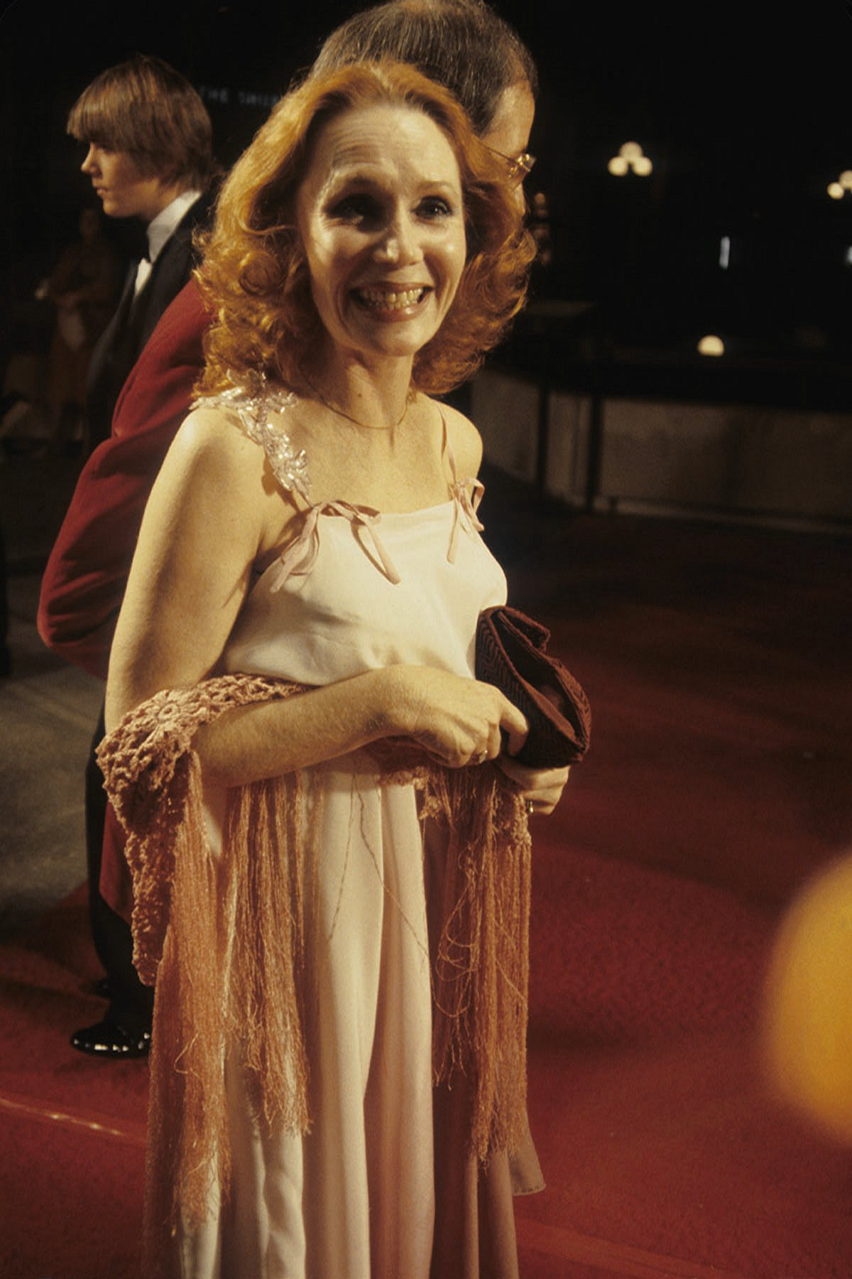 Katherine Helmond at the premiere of Bette Midler's movie, THE ROSE, 1979